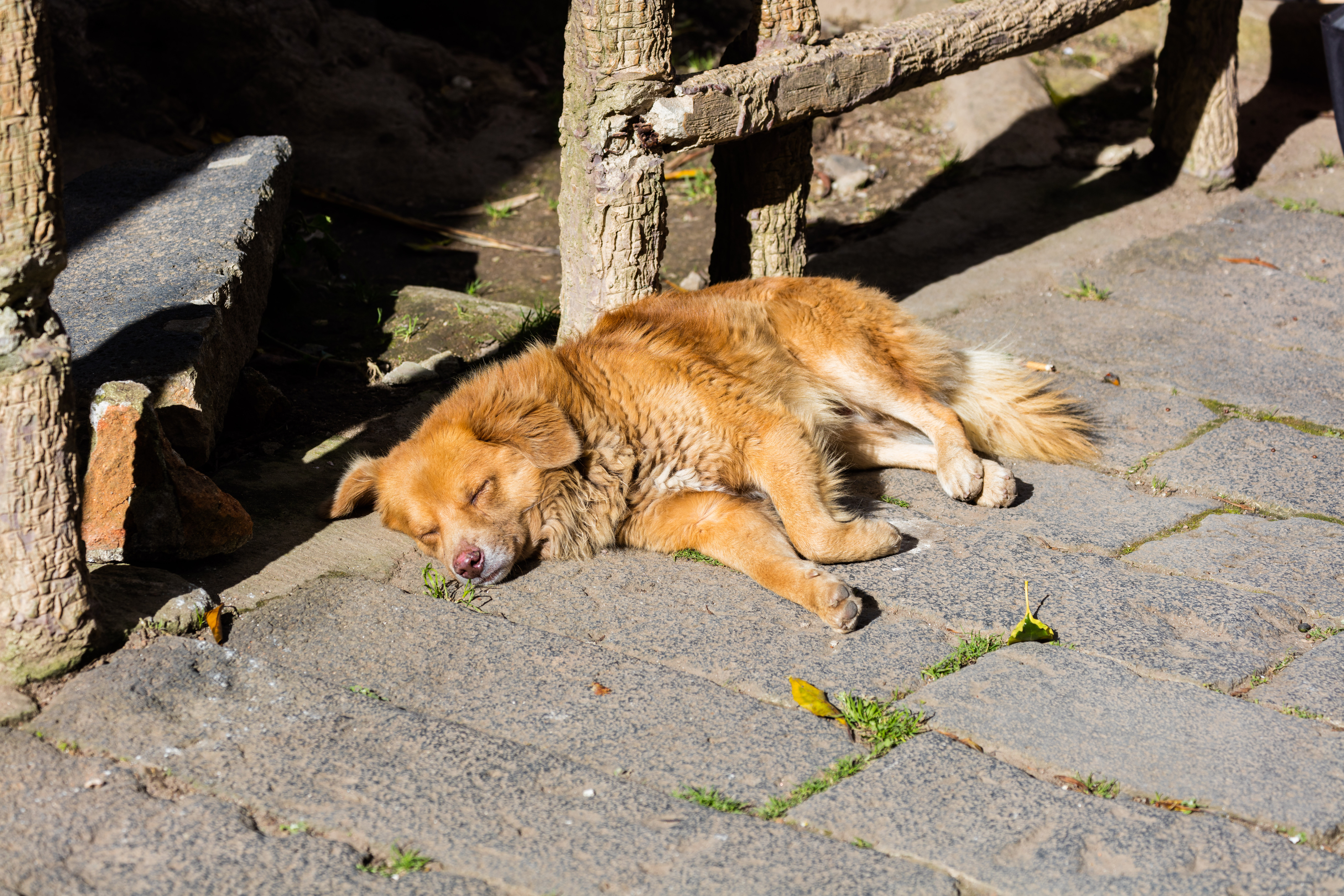 Laying dog at the sun, Ipiales, Colombia